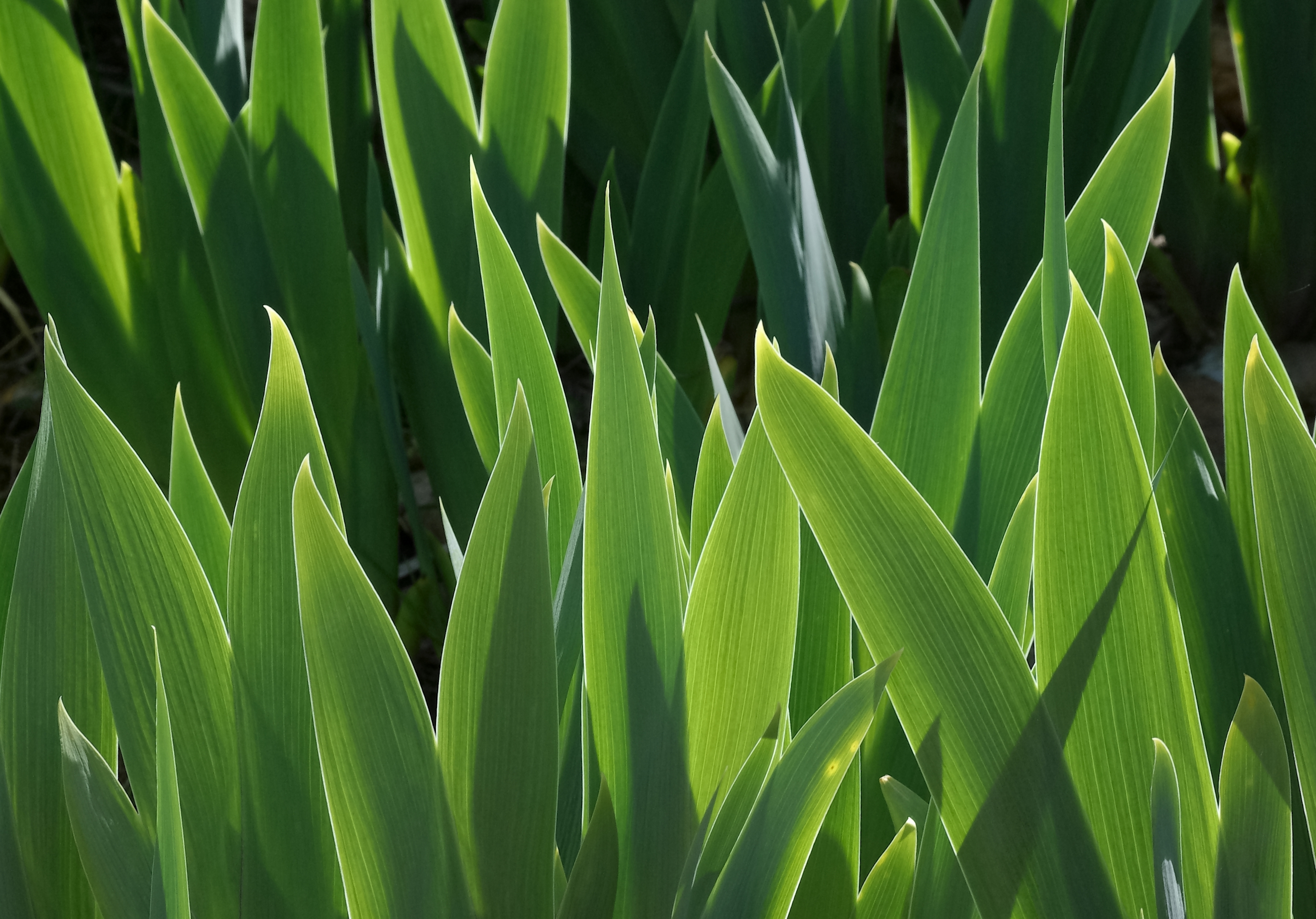 Backlit iris leaves (Iris x cultivar) in a garden,France.